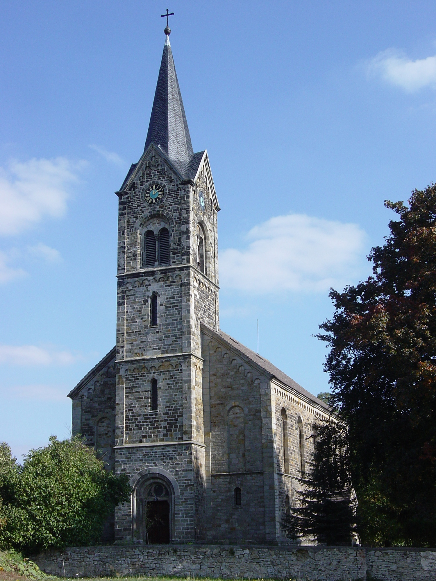 Church in Druxberge, Germany